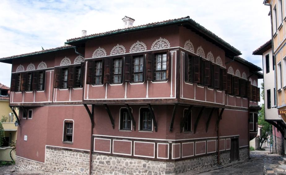 Hadji Lampsha